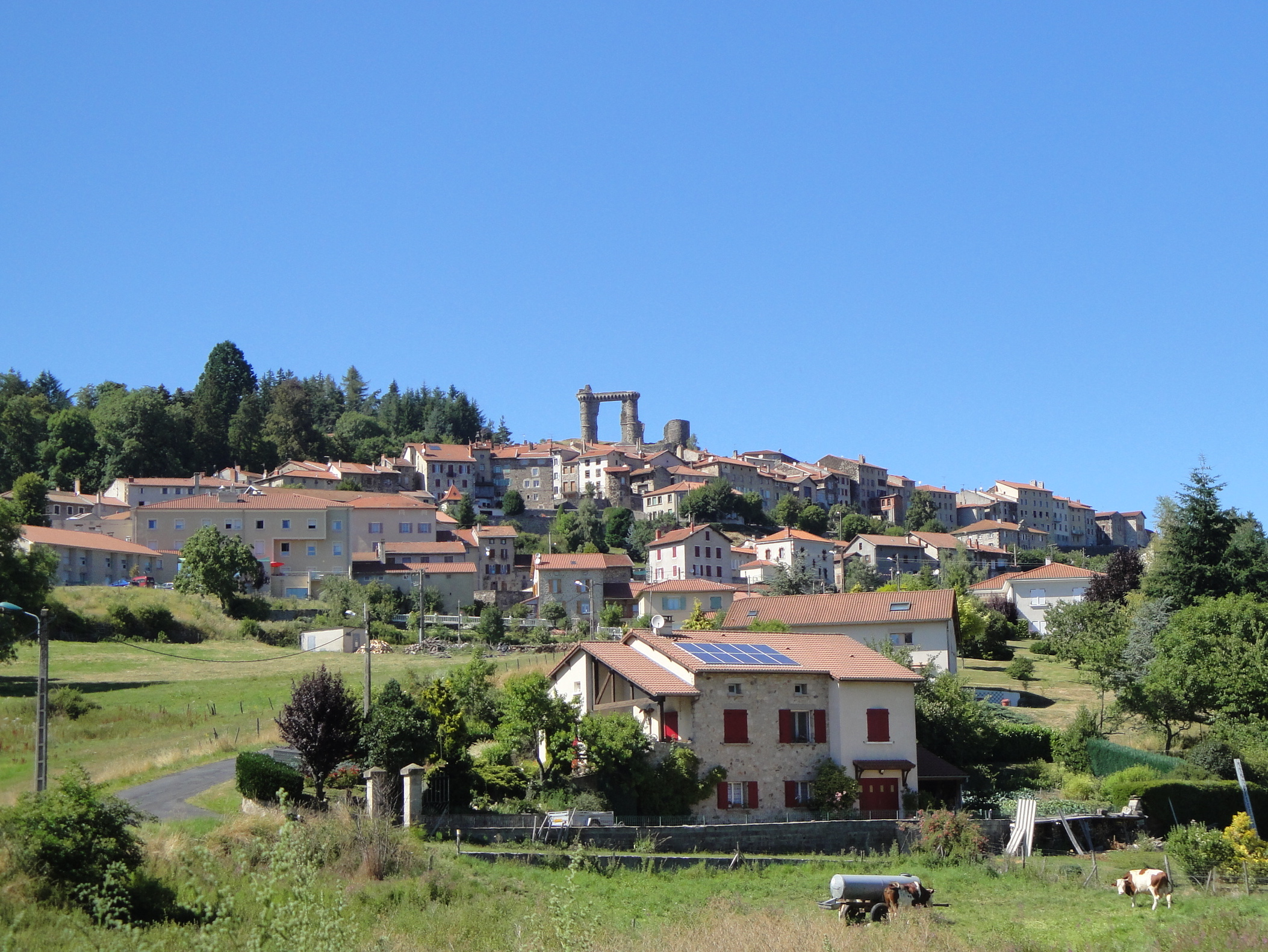 General view of the village of Allègre, Haute-Loire, France